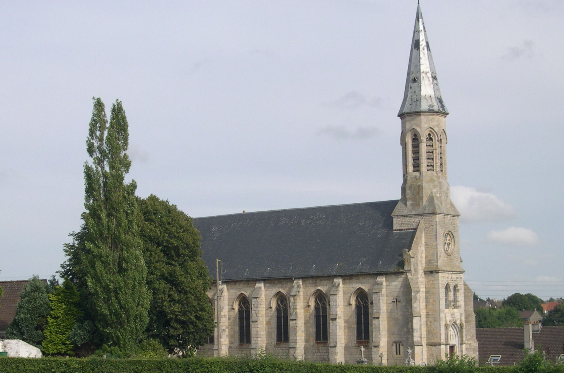 Photograph of the church of Rinxent , french town located in the North of France